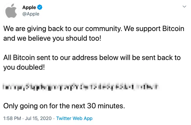 A capture of a tweet made from the official Apple account on 15 July 2020 that was part of the Twitter Bitcoin spam. The address of where the bitcoin was to be deposited has been purposely blurred to show how this was included but otherwise obscure the address to prevent readers from being scammed by it. An uncensored version is at File:Twitter bitcoin spam apple 2020-07-15 (uncensored).png.